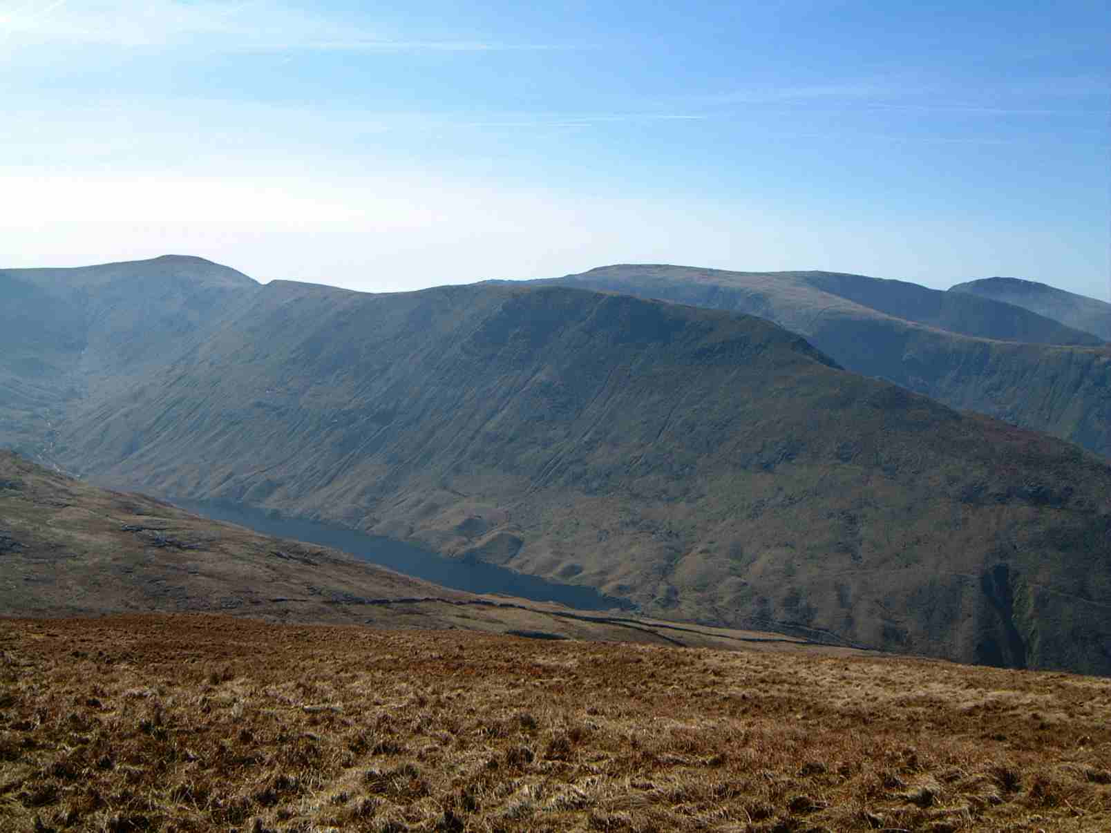 Personal photograph taken by Mick Knapton on 18th March 2003